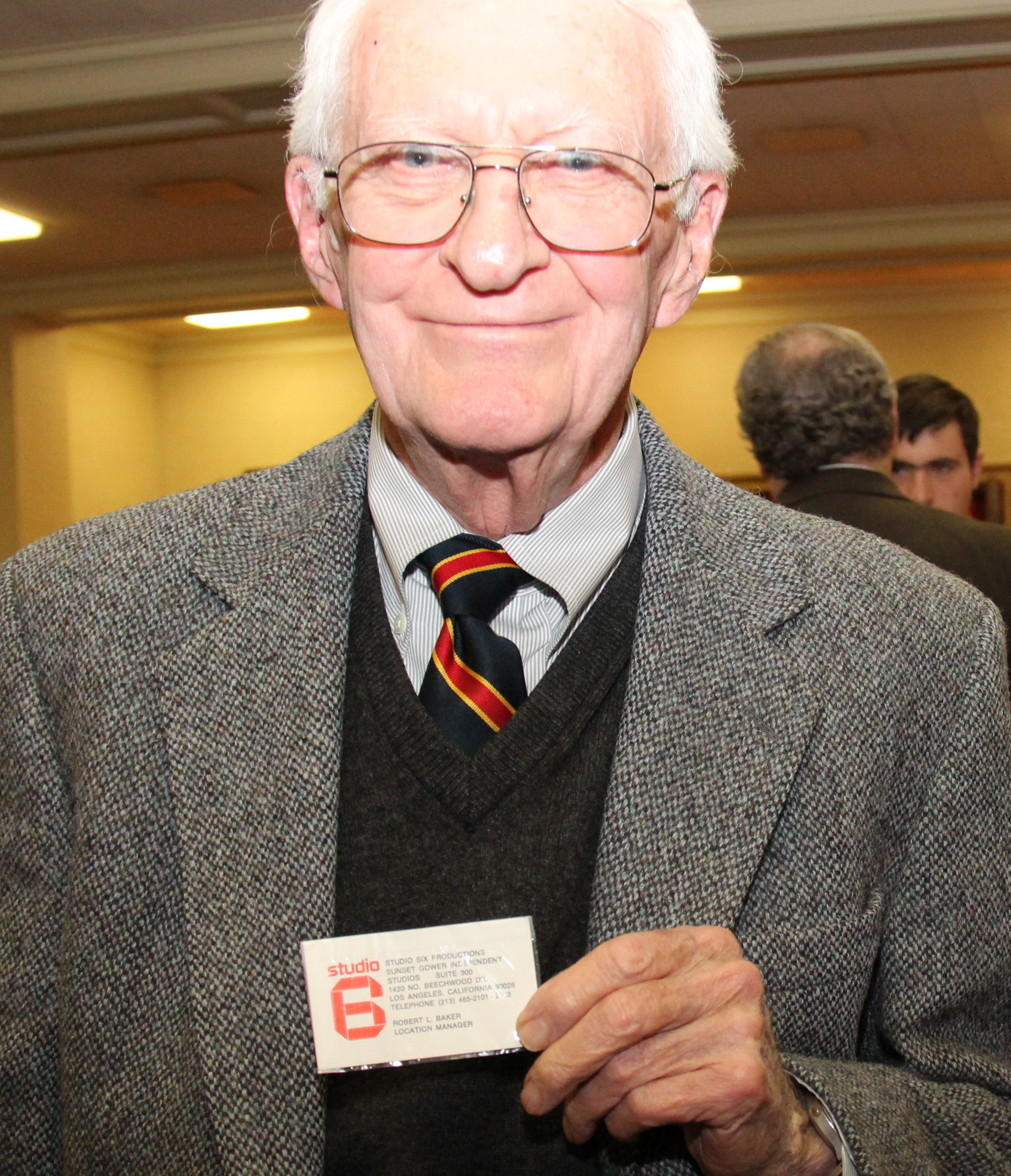 Former U.S. diplomat Robert Anders holds up the business card made for him as part of the ruse to get him and five other Americans out of Tehran during the Iran Hostage Crisis that began in 1979. The hostages ended up posing as a Canadian film crew from the fake company Studio 6 in Iran supposedly doing site visits for a sci-fi thriller called Argo. A movie of the same name, recently released to wide acclaim, has brought the Iran Hostage Crisis, also called the Canadian Caper, back into the consciousness of Canadians, Americans and citizens worldwide.